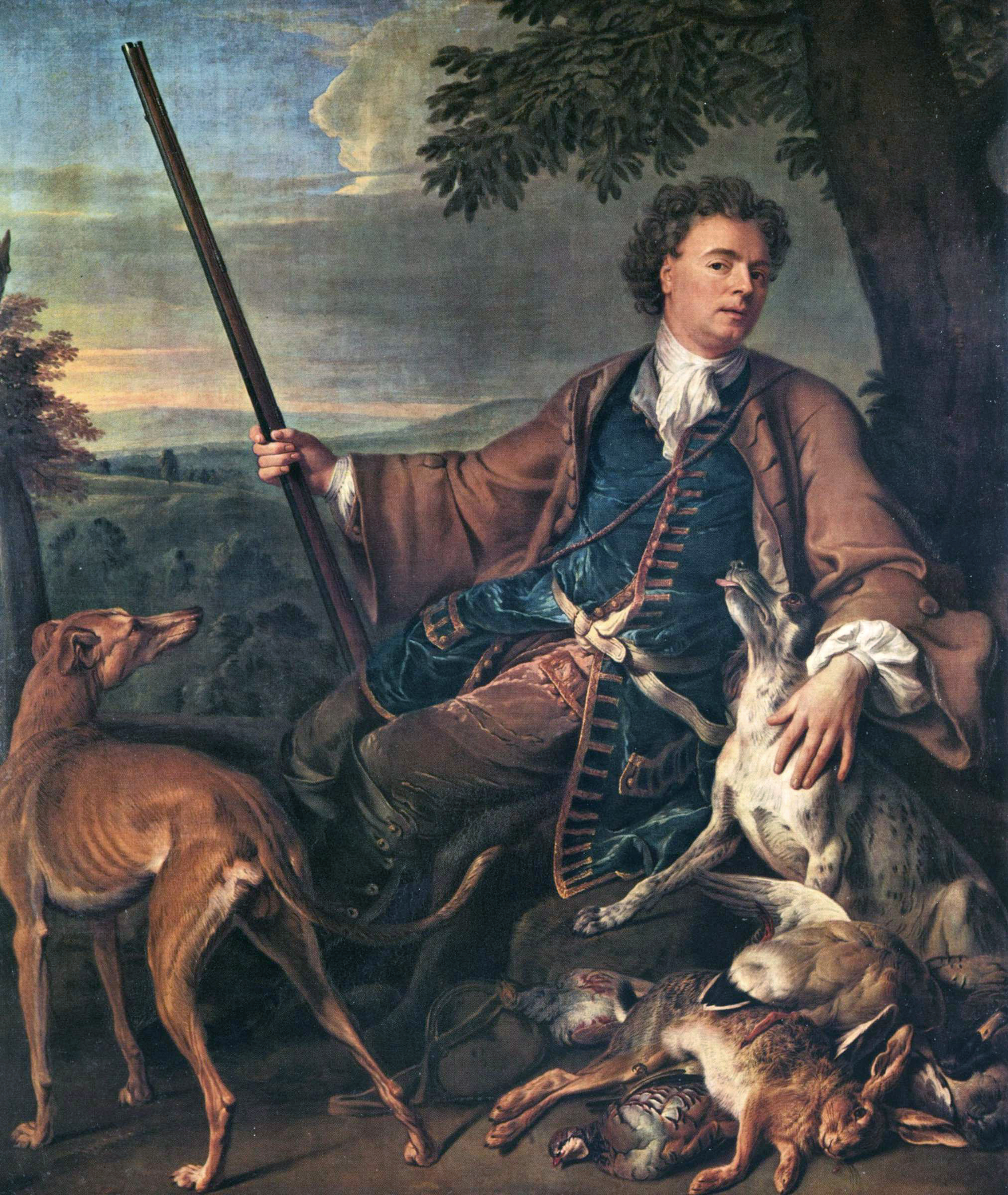 Self-portrait in Hunting Dress